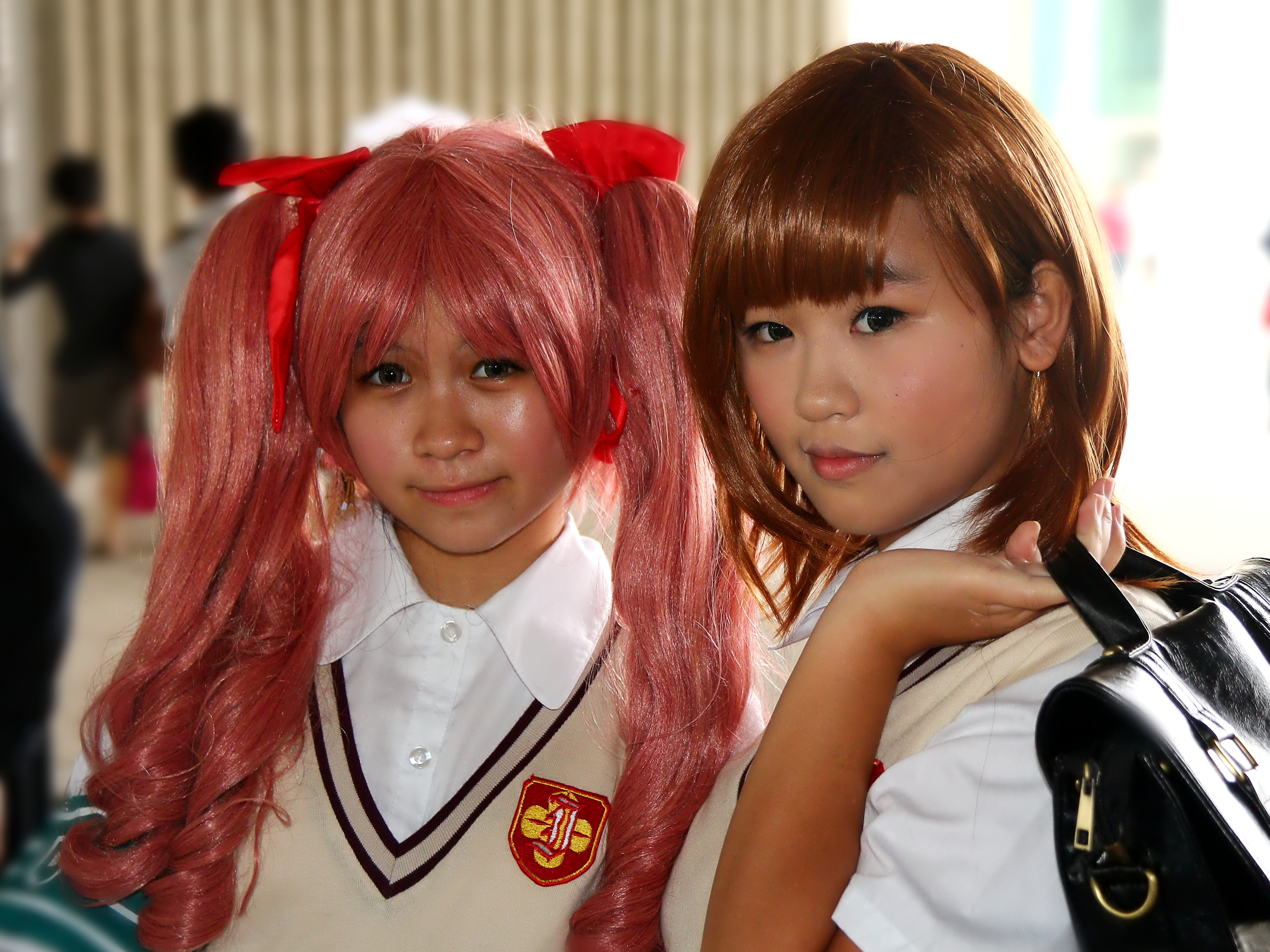 Cosplayers of Kuroko Shirai and Mikoto Misaka from "A Certain Scientific Railgun" at EOY 2012 Cosplay Festival.